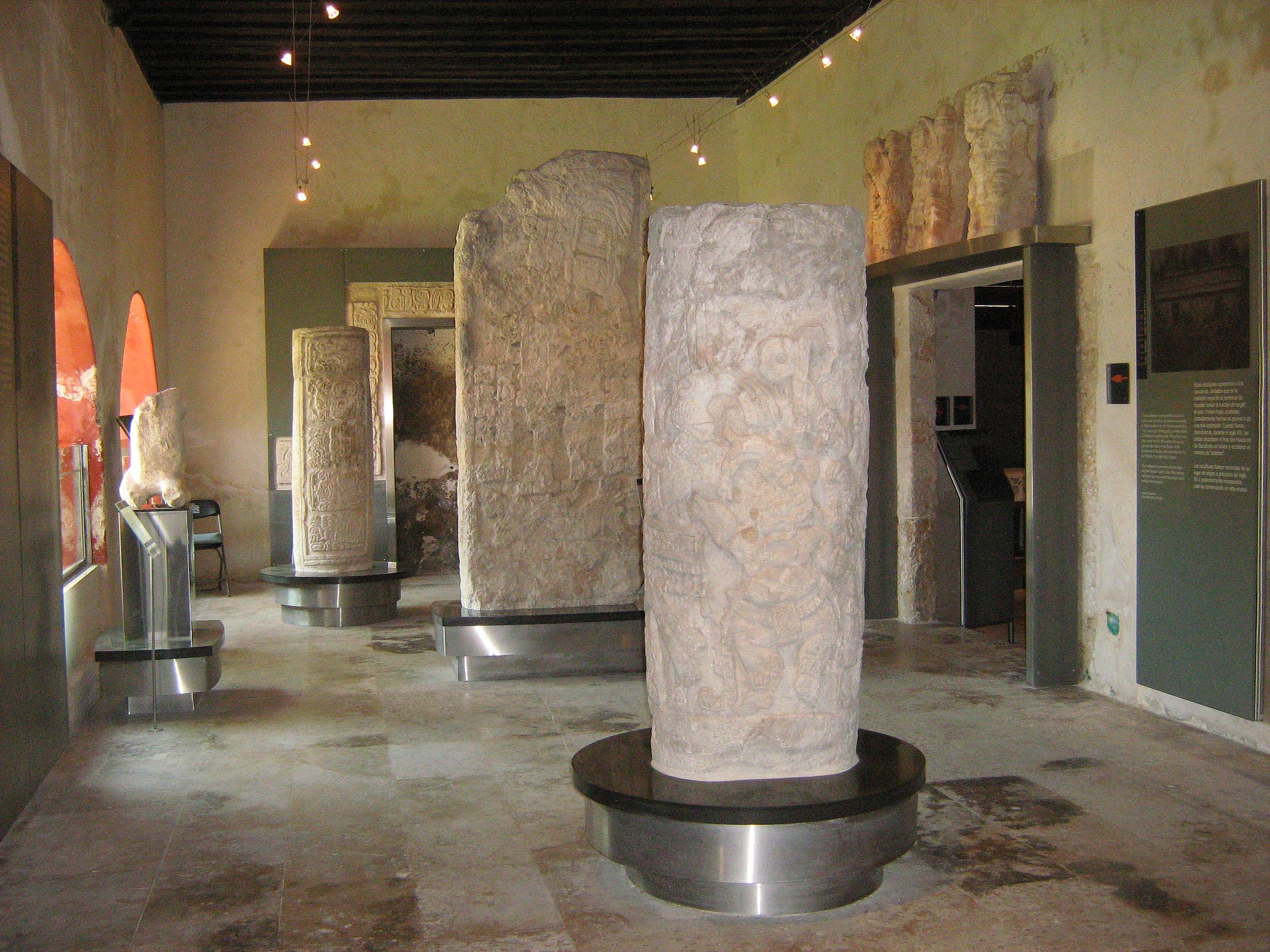 Mayan steles — located in the Fort San Miguel museum,. In San Francisco de Campeche, the state of Campeche, SE México.